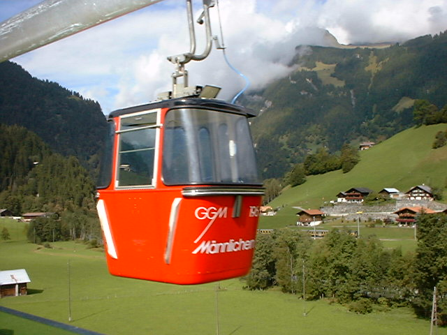 One of the gondolas of the Gondelbahn Grindelwald-Männlichen seen near the talstation in Grindelwald Grund in summer